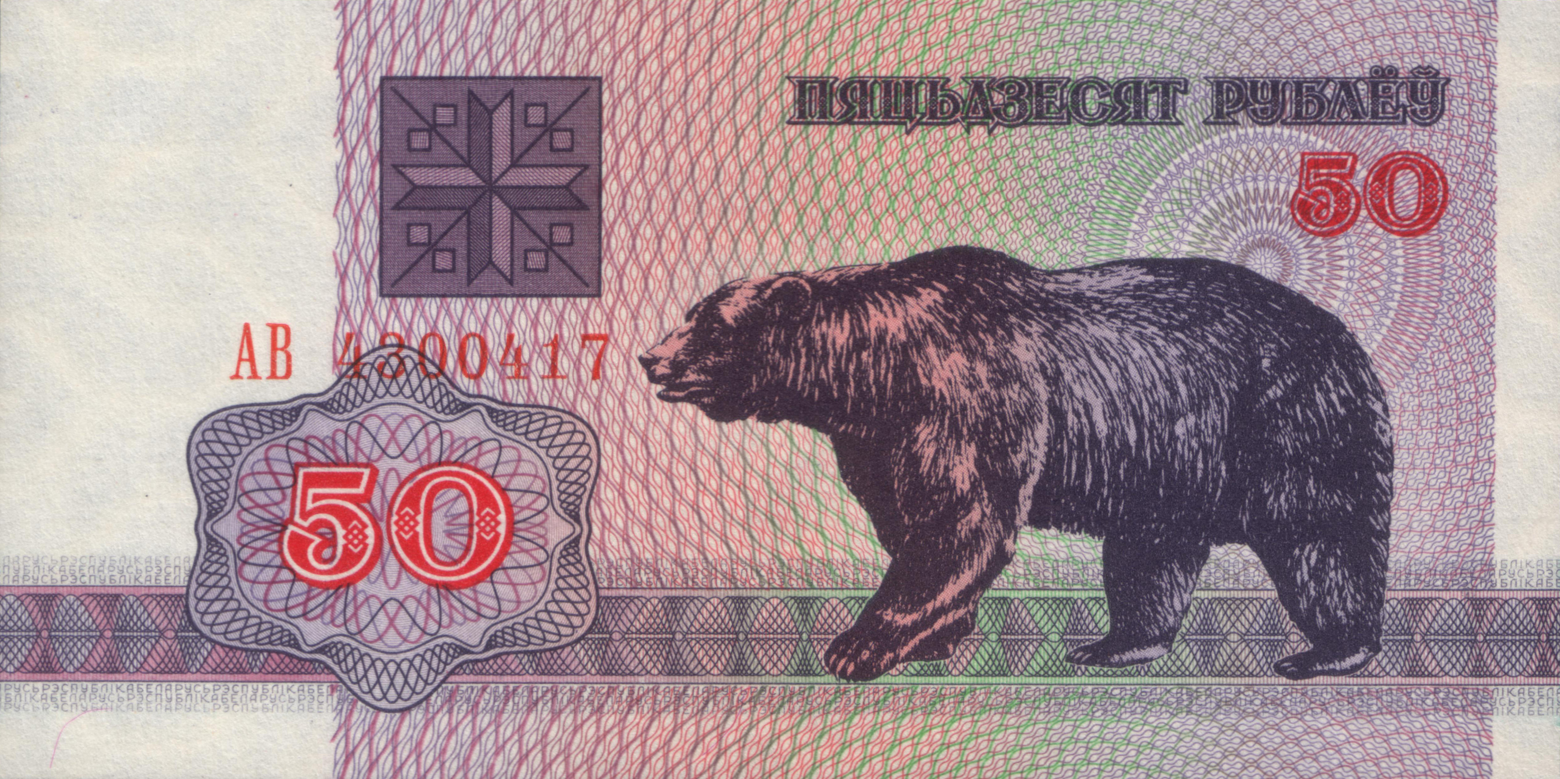 50 roubles of Belarus (1992)